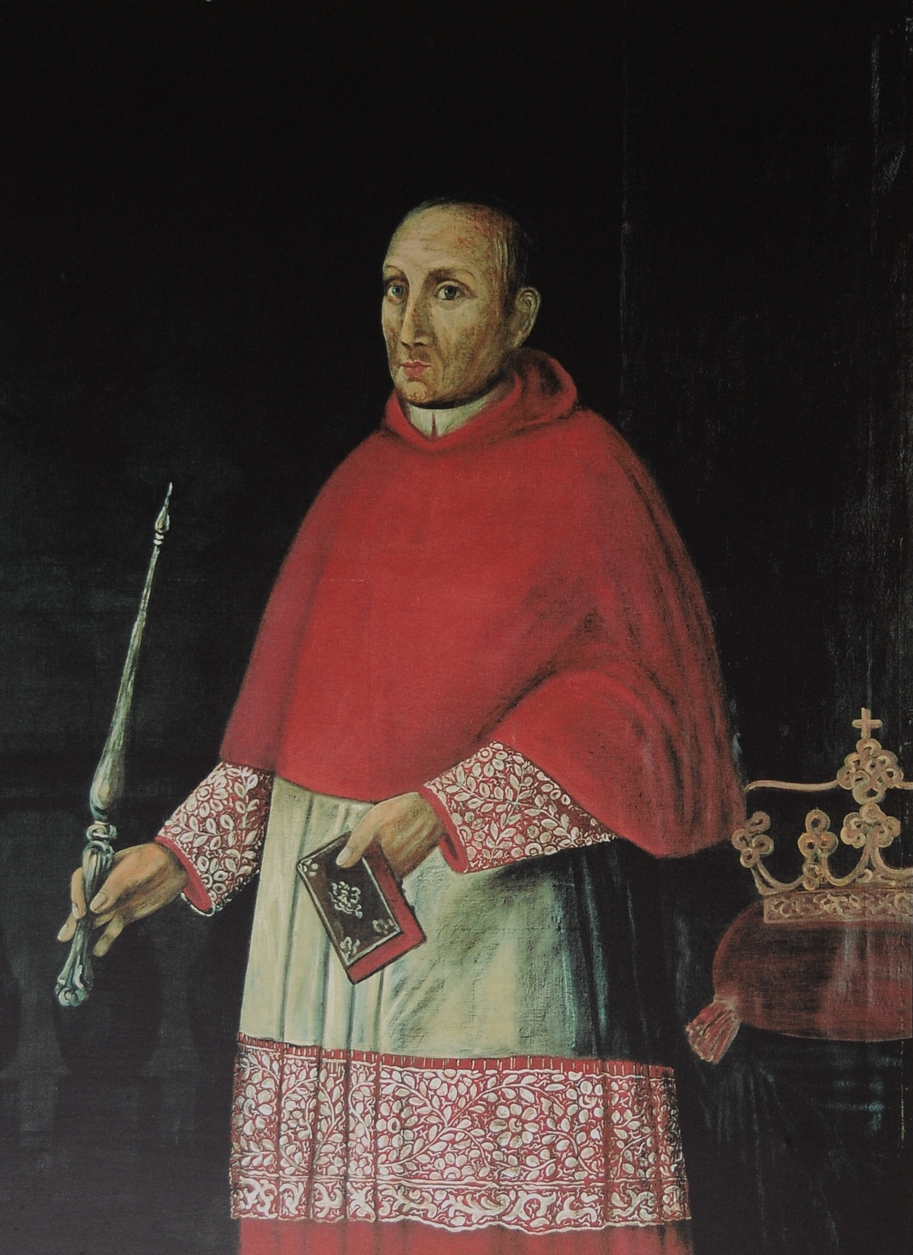 o rei